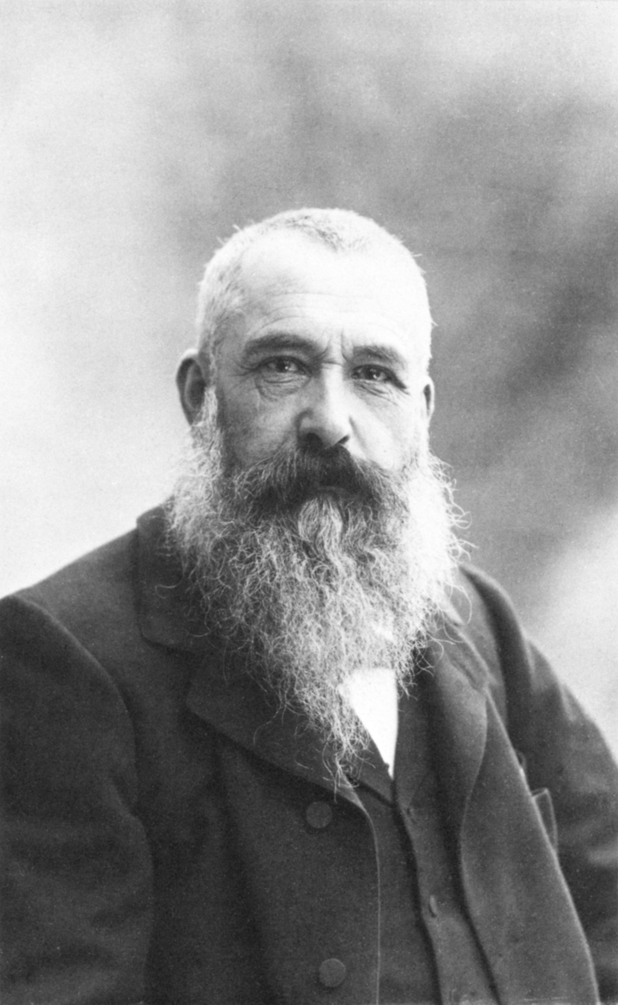 Claude Monet, photo by Nadar, 1899.